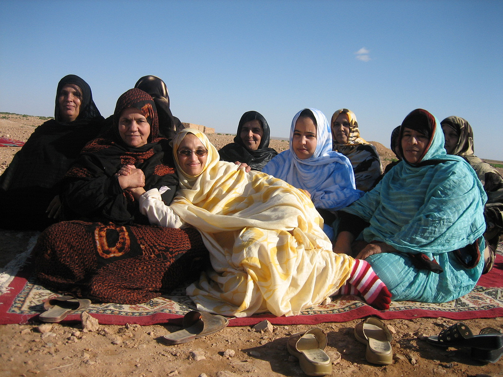 Aminatou Haidar in the Liberated Territories of Western Sahara